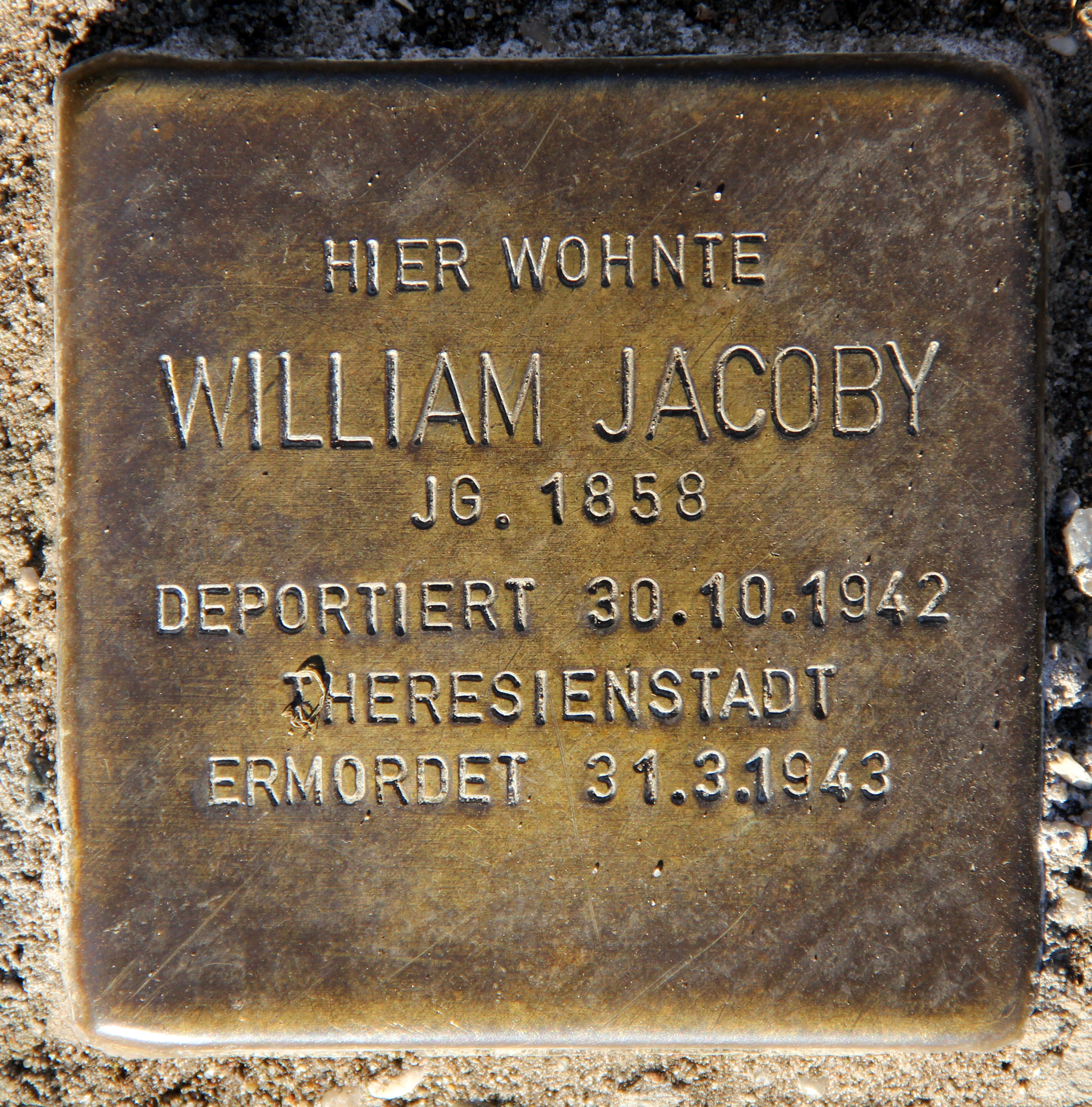 "Stolperstein" (stumbling block), William Jacoby, Loebellstraße 6, Berlin-Zehlendorf, Germany